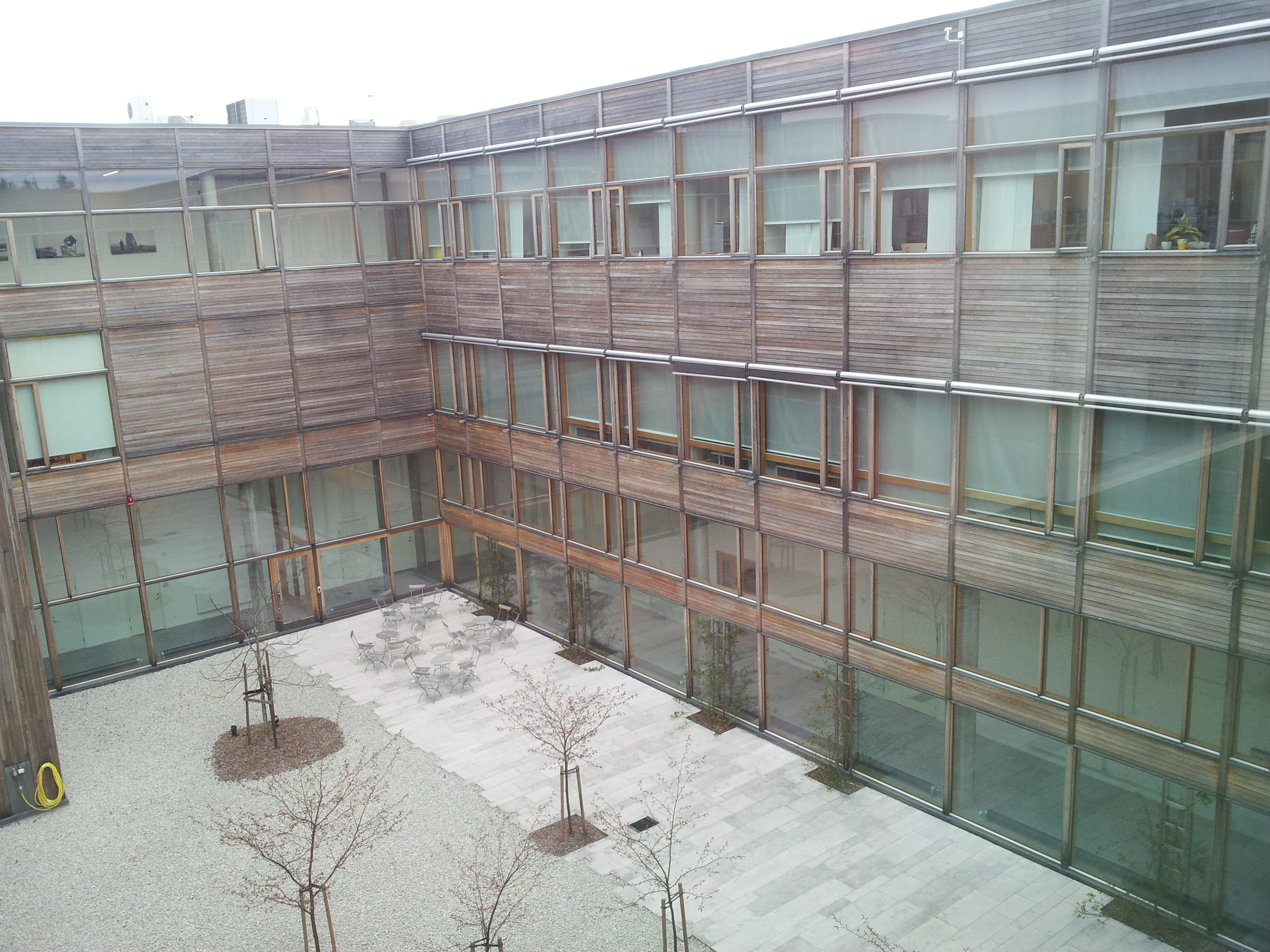 The inner courtyard of the Visby offices of the National Heritage Board of Sweden.